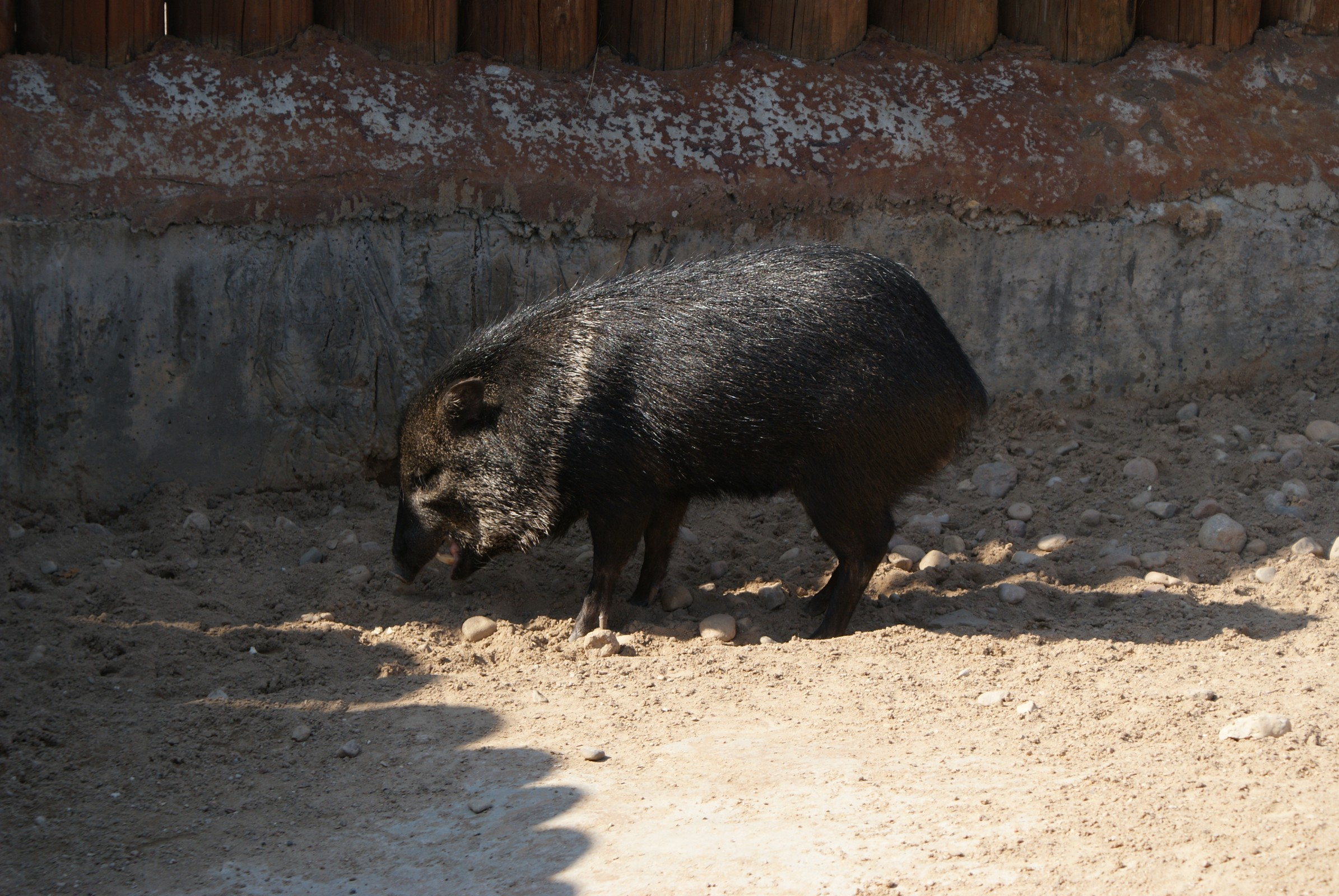 Pecari tajacu in Minsk Zoo